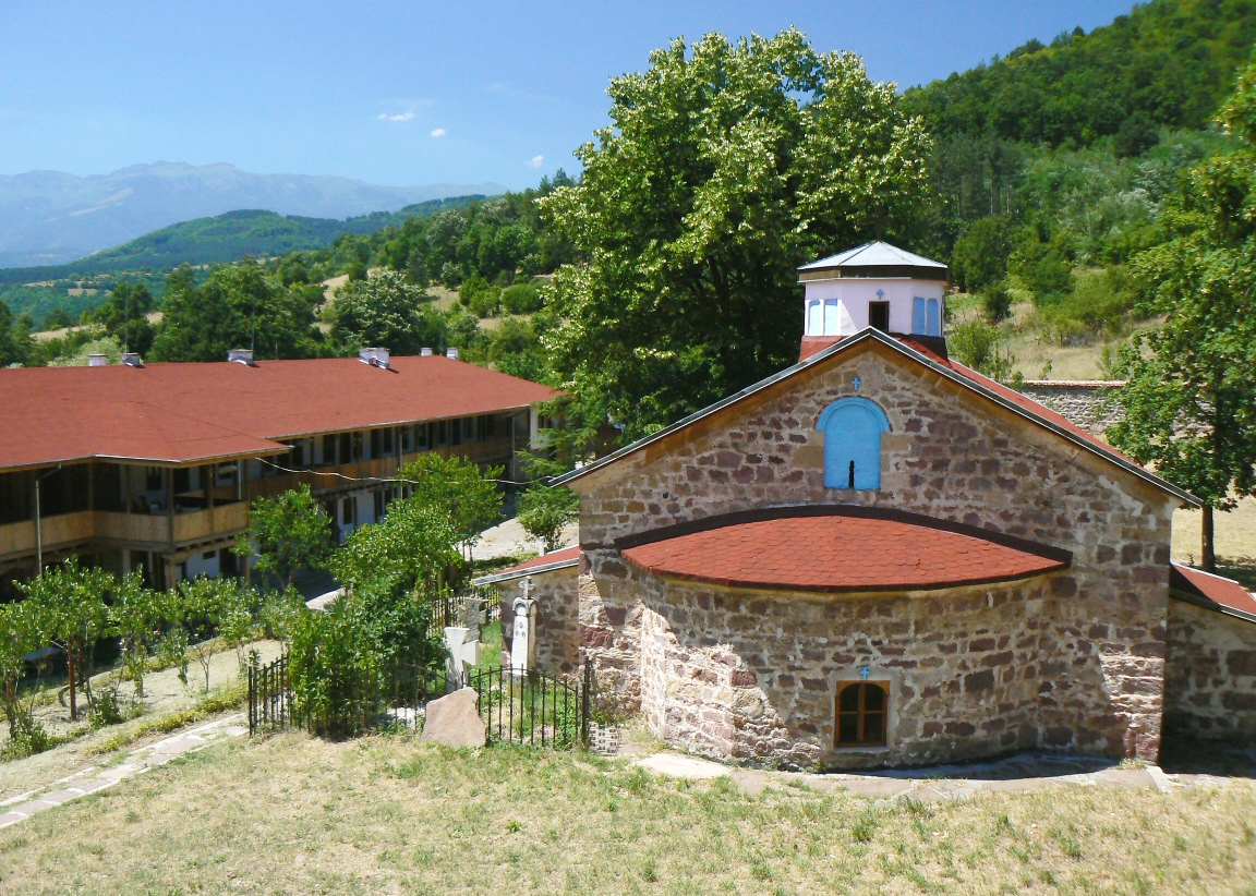 The yard of Chiprovski monastery, Bulgaria - the church and monks' cloister